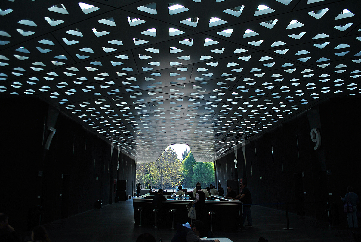 The Cineteca Nacional is an institution dedicated to the preservation, cataloging, exhibition and dissemination of cinema in Mexico. It is under the CONACULTA (National Council for Culture and the Arts). Located in Mexico, it is part of the International Federation of Film Archives.